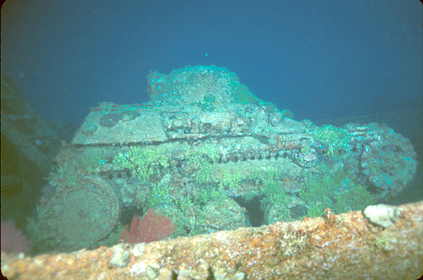 Japanese 2-man tankette on the deck of the Nippo Maru wreck, Truk Lagoon, Micronesia. Image taken by Clark Anderson/Aquaimages.